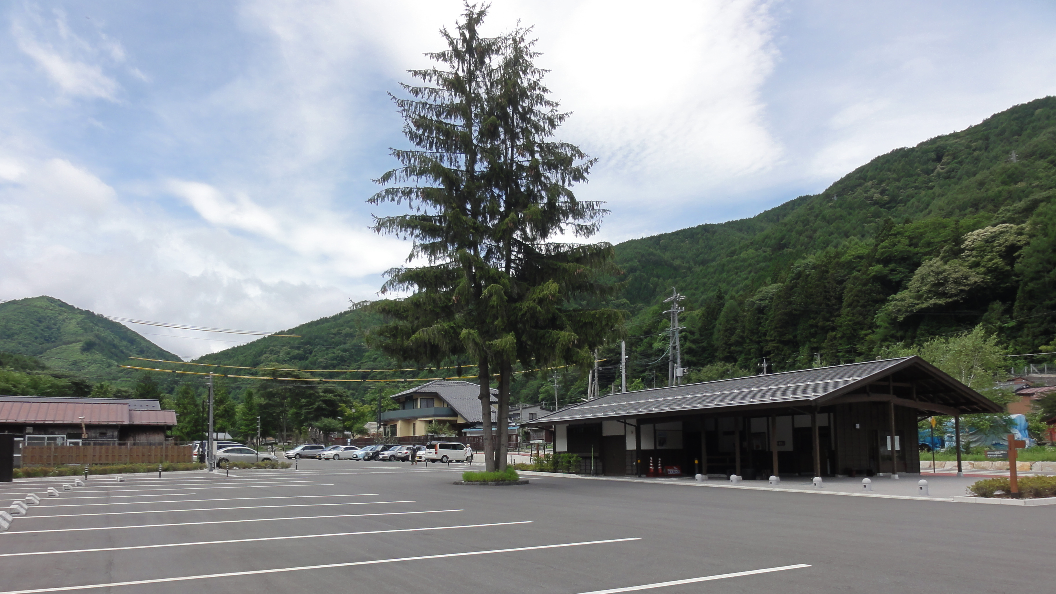 Refurbished Michinoeki Narai Kiso no Ohashi in Shiojiri City, Nagano Prefecture, Japan